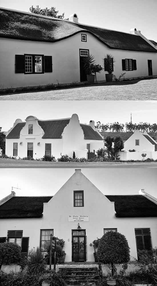 addds sdds